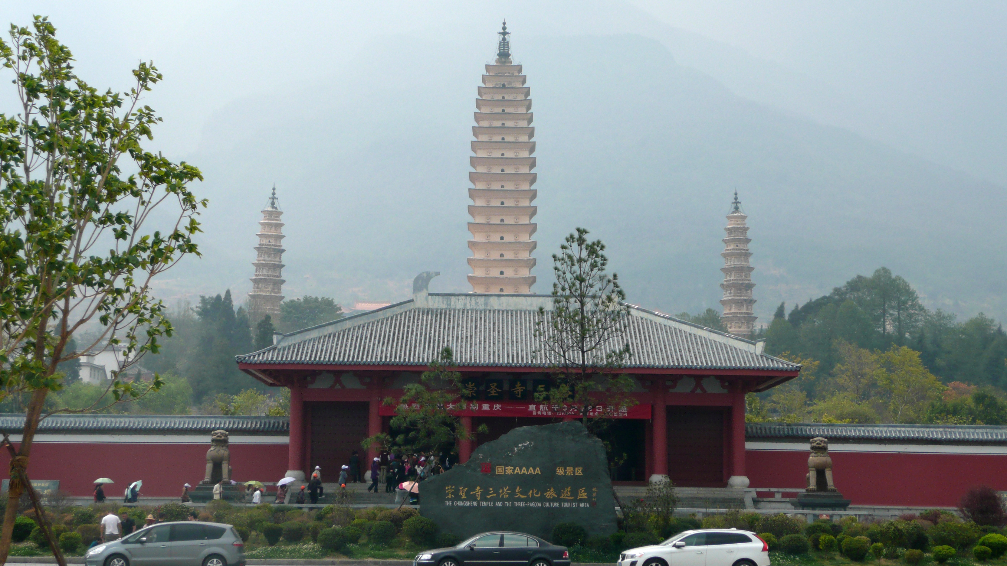 Three Pagodas of Dali (Yunnan)